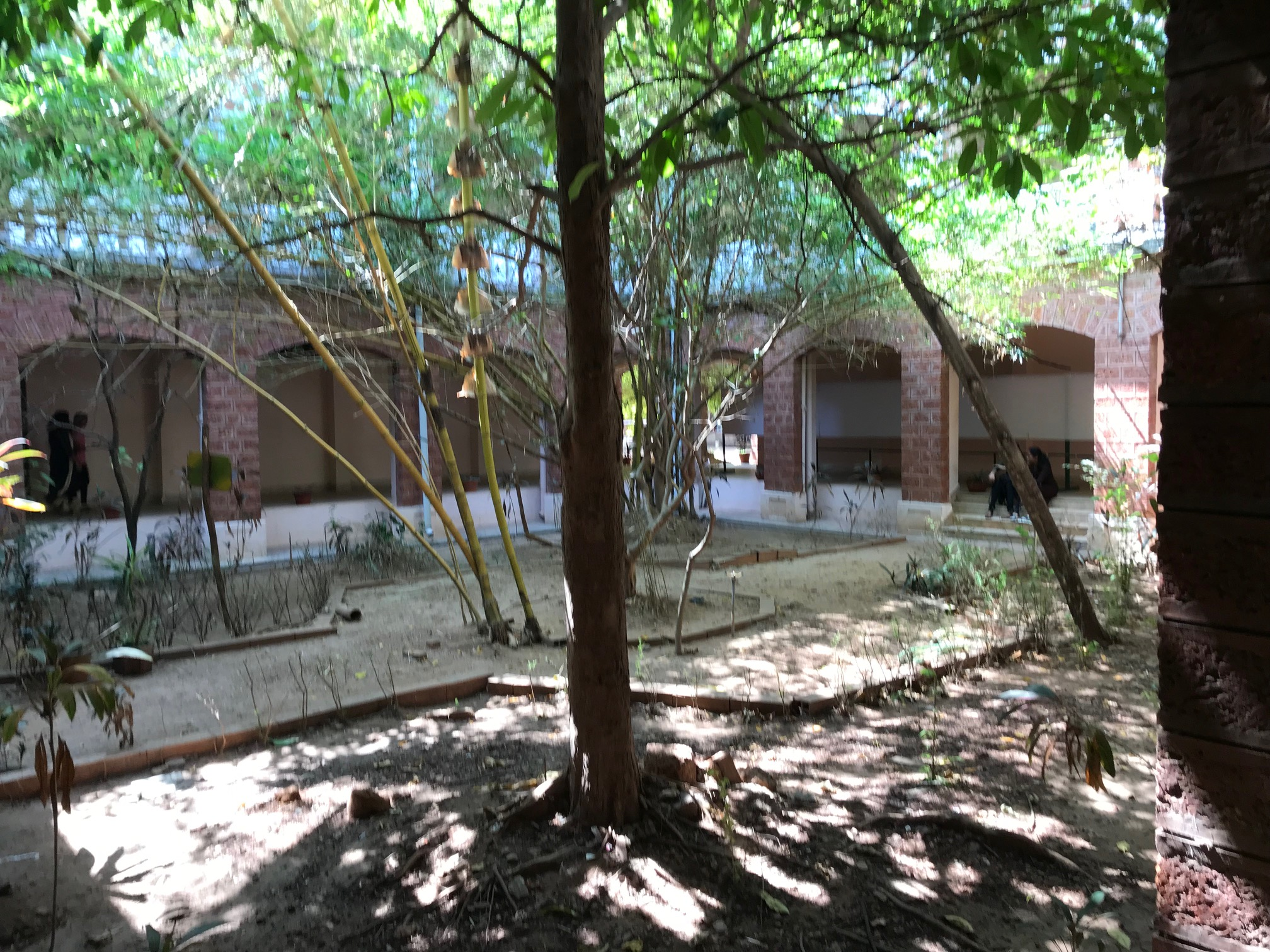 Schooloflifesciencescourtyard